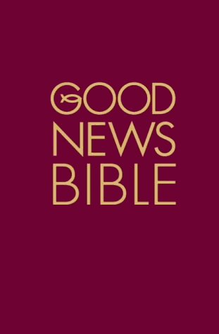 The 2004 book cover of the American Bible Society's Good News Bible.